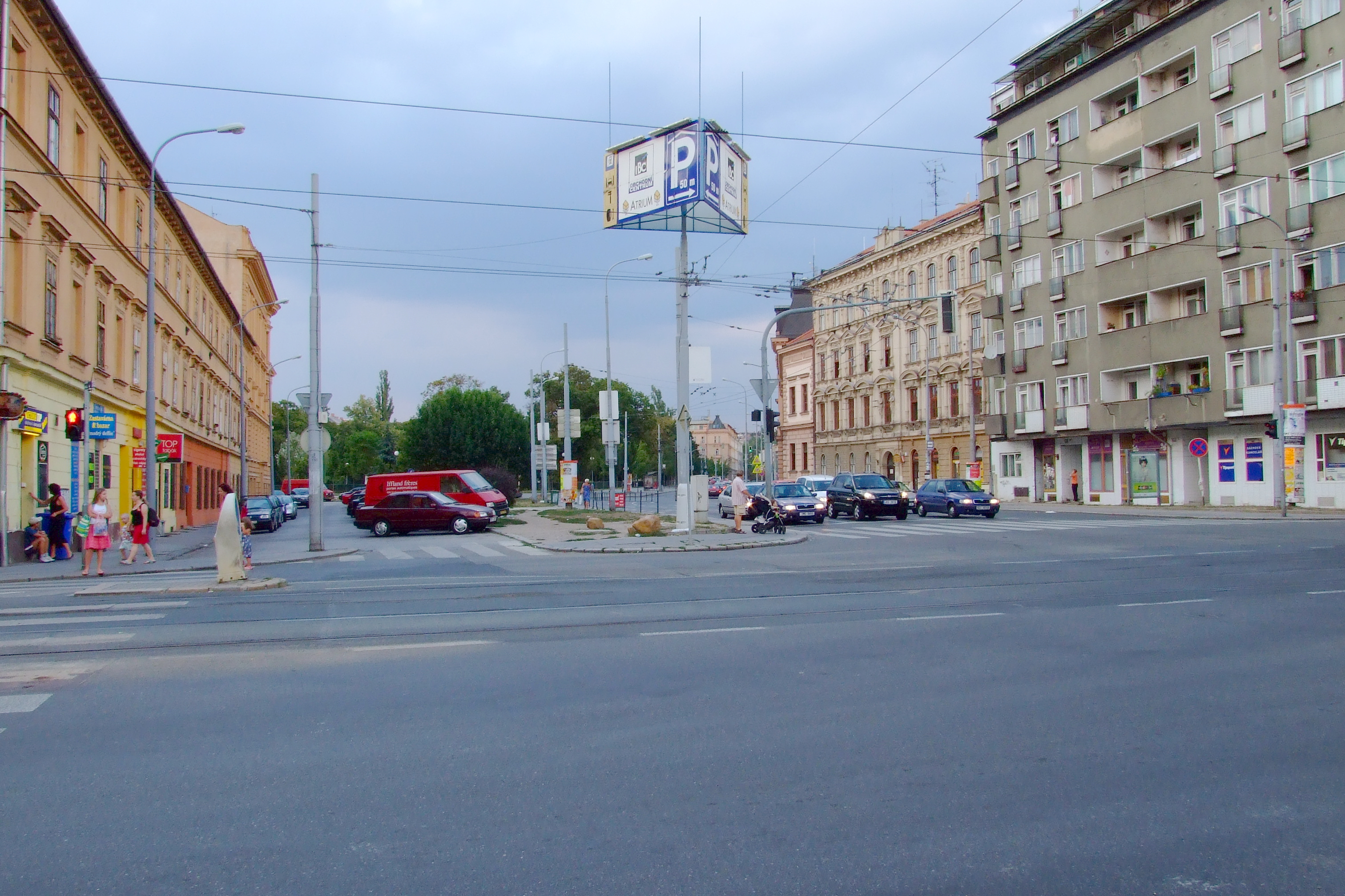 Brno-Černá Pole - 28th October square from south